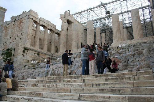 Ron Waller, personal photograph, Propylea at the Acropolis, Athens (April 2006).